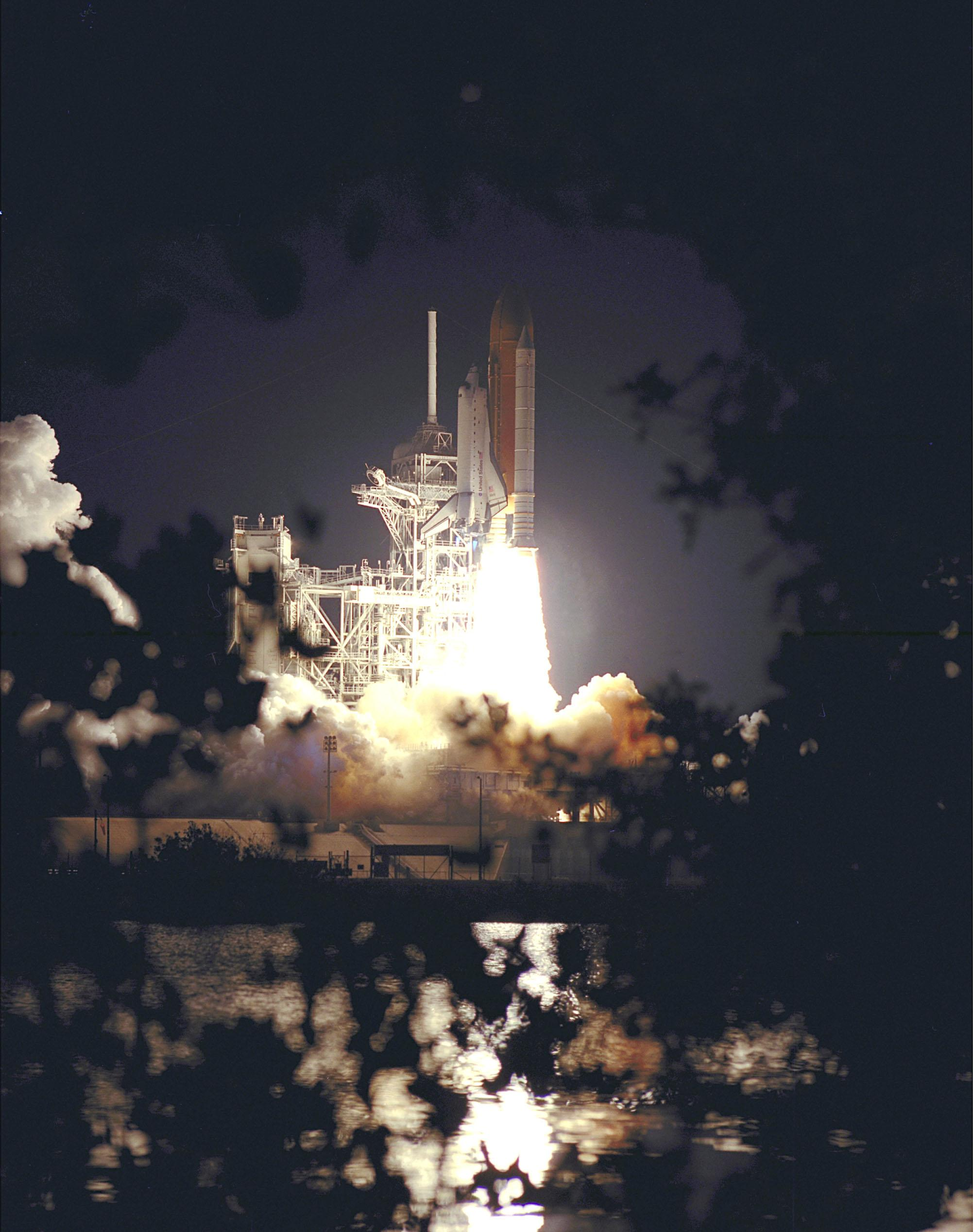 A gap in shrubs across the water from Launch Pad 39A provide the perfect frame for the brilliantly lighted liftoff of Space Shuttle Atlantis on mission STS-101. Liftoff occurred on time at 6:11:10 a.m. EDT. The mission is taking the crew of seven to the International Space Station to deliver logistics and supplies as well as to prepare the Station for the arrival of the Zvezda Service Module, expected to be launched by Russia in July 2000. Also, the crew will conduct one space walk and will reboost the space station from 230 statute miles to 250 statute miles. This will be the third assembly flight to the Space Station. After a 10-day mission, landing is targeted for May 29 at 2:19 a.m. EDT. This is the 98th Shuttle flight and the 21st flight for Shuttle Atlantis.